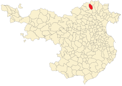 Cantallops